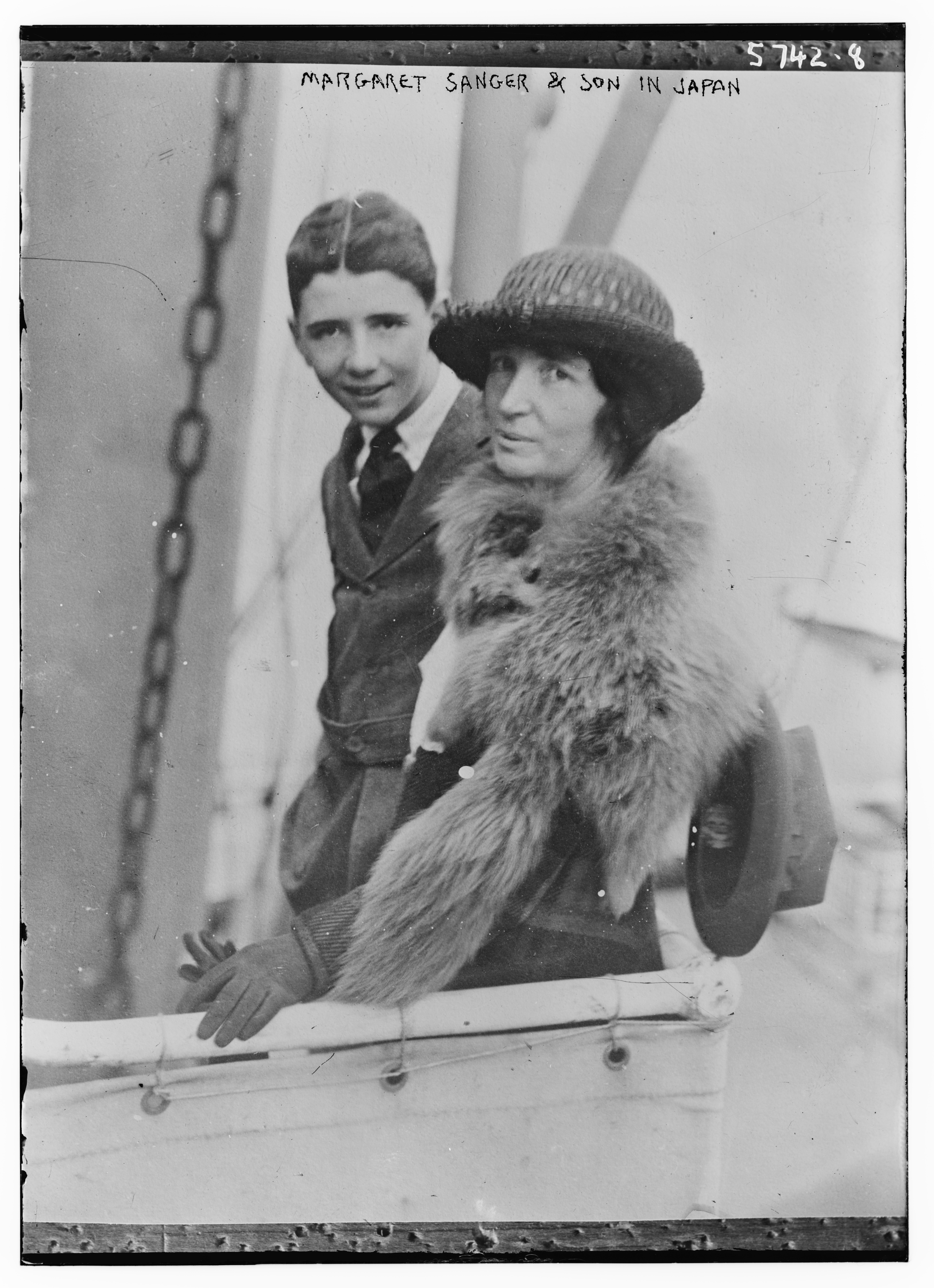 Title: Margaret Sanger & son in Japan Abstract/medium: 1 negative : glass ; 5 x 7 in. or smaller.